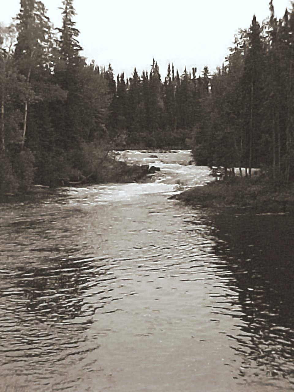 This photograph of Manitoba's Grass River has been altered to a warm sepia with low saturation.